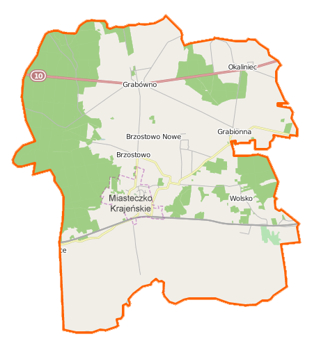 Map of Gmina Miasteczko Krajeńskie, Poland This map of Miasteczko Krajeńskie (gmina) was created from OpenStreetMap project data, collected by the community. This map may be incomplete, and may contain errors. Don't rely solely on it for navigation. Border coordinates53.157116.9406←↕→17.094853.0536